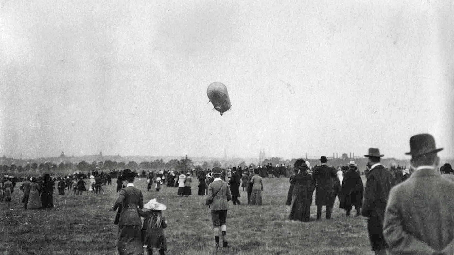 LZ 11 on Sept. 29th 1912 over Kassel